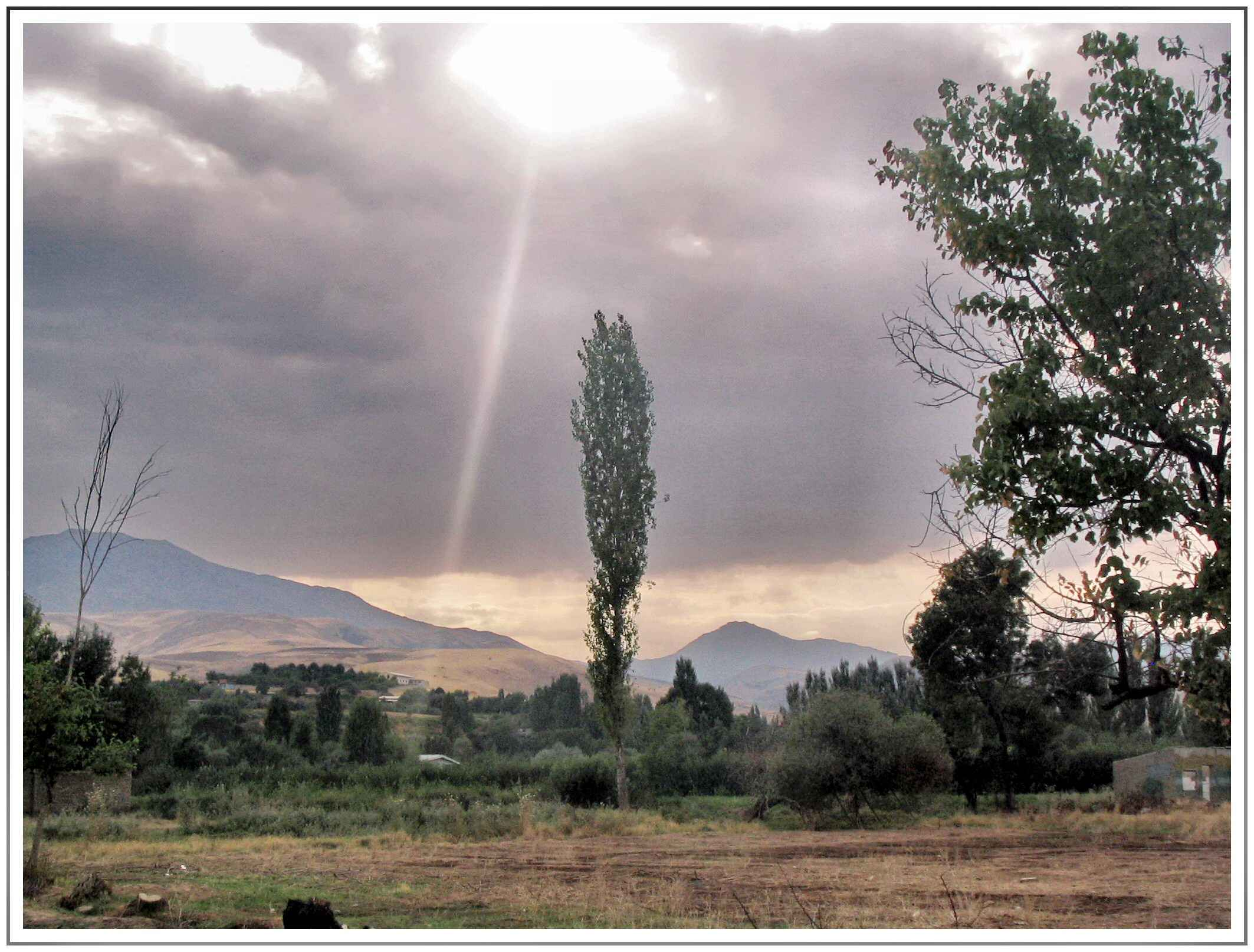 landscape of Zagros mountains in the west of Borujerd